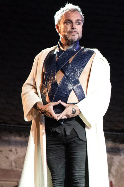 Uwe Kröger spielt Merlin in "Artus - Excalibur" bei den Schlossfestspielen Zwingenberg im Sommer 2019.